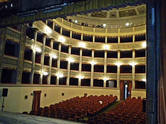 audience